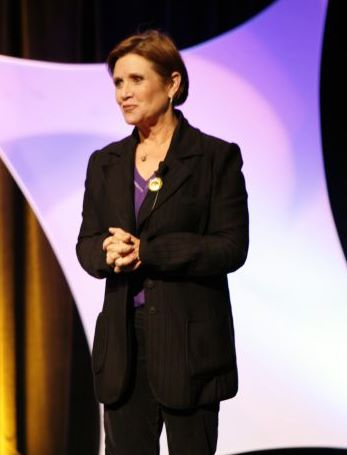 Photo by Jenny Elwick. Read more at the Official Celebration IV blog.